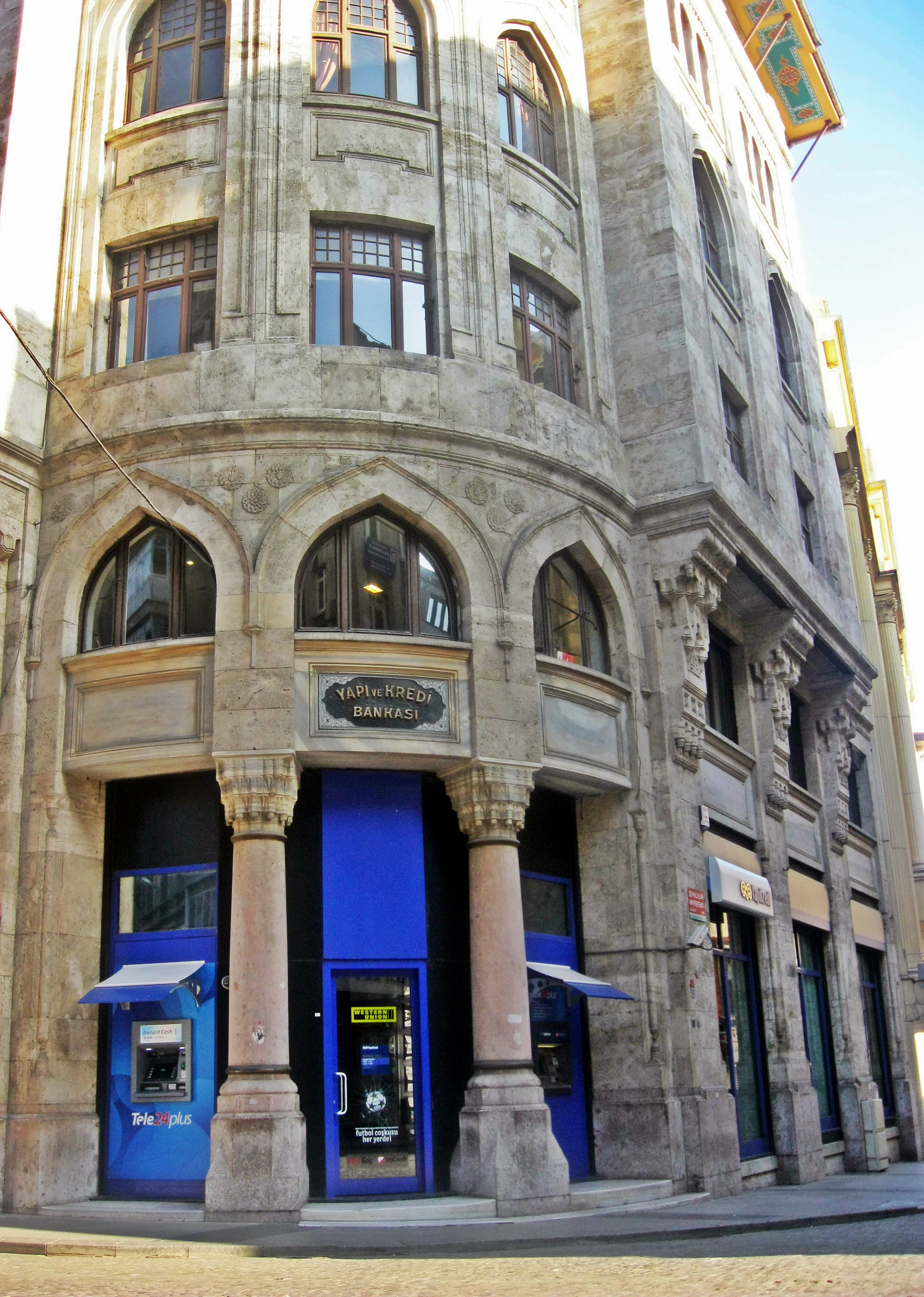 Sirkeci branch of Yapı Kredi bank.